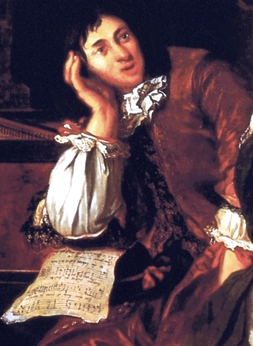 A portrait of a person from "Domestic Music Scene" by Johannes Voorhout (1674); this once was thought to be Buxtehude, but recent research in Kerala J. Snyder's book has denied this assertion. Most likely, the person portrayed was Johann Philipp Förtsch, an opera singer of Hamburg, friend of Reincken.